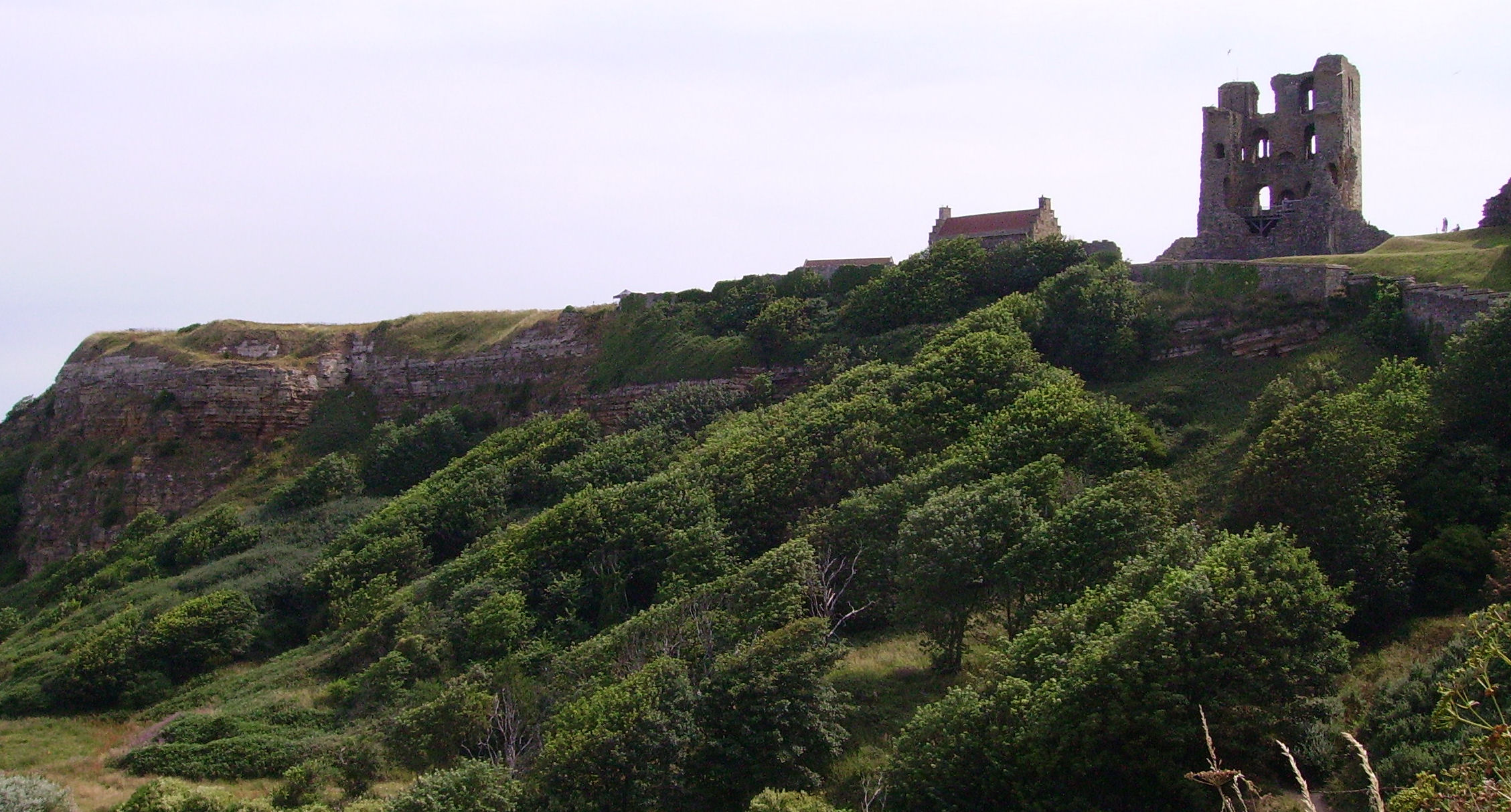 view of Scarborough castle in North Yorkshire, United Kingdom